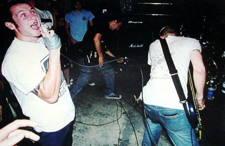 PCH Club 1998 Photo: Graham Donath